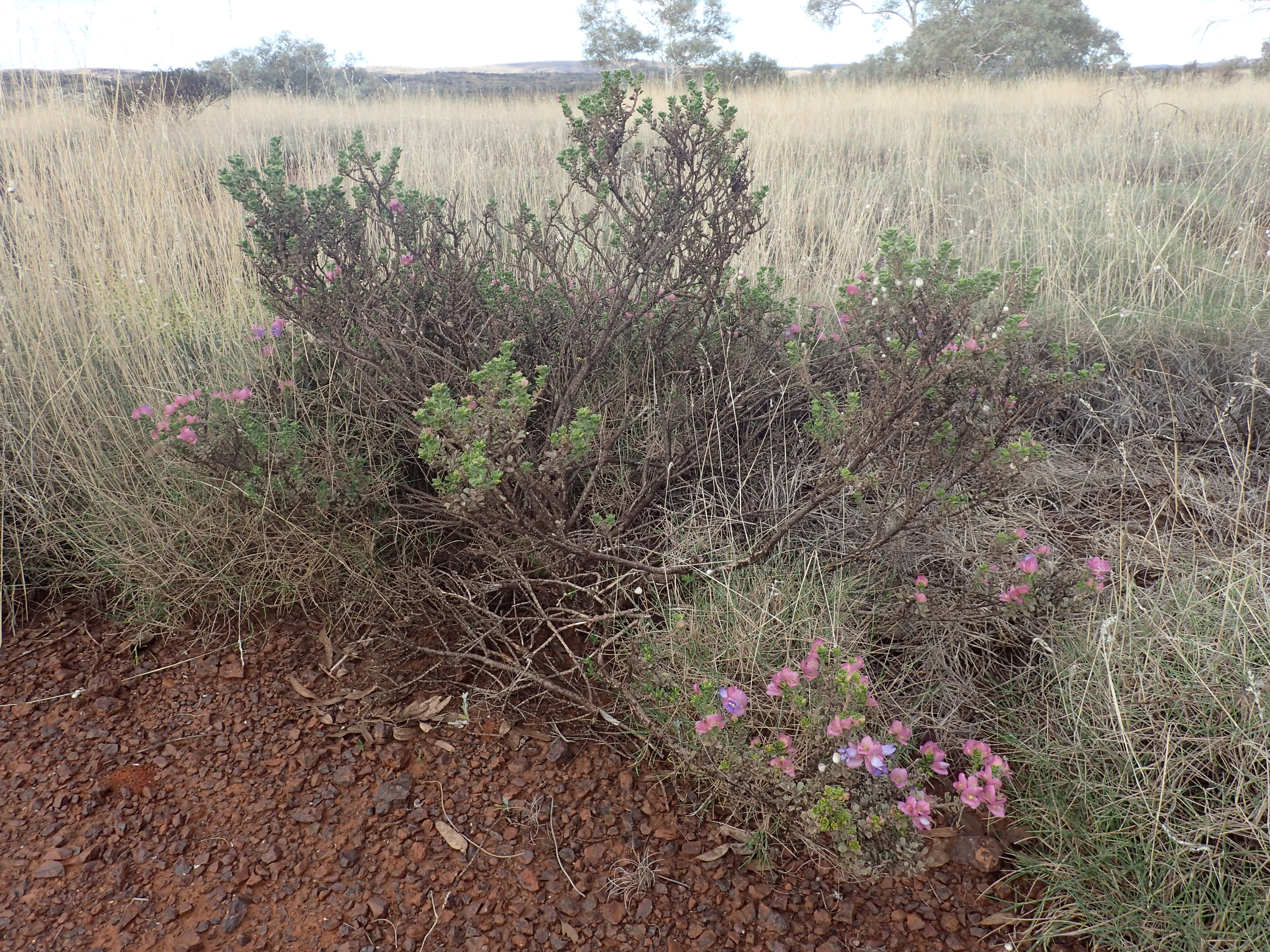 Eremophila cuneifolia (pink sepals) growing near Opthalmia Dam